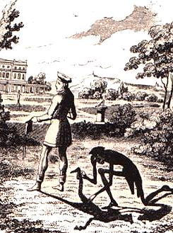 Adelbert von Chamisso: Peter Schlemihl, etching by George Cruikshank, 1827